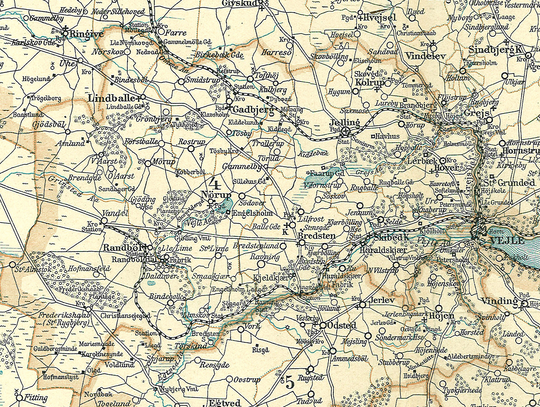 Map of Vejle County in Denmark